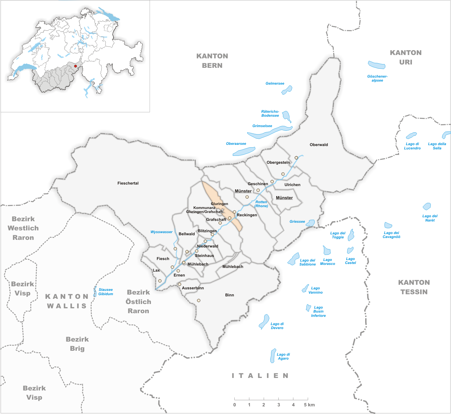 Municipality Gluringen